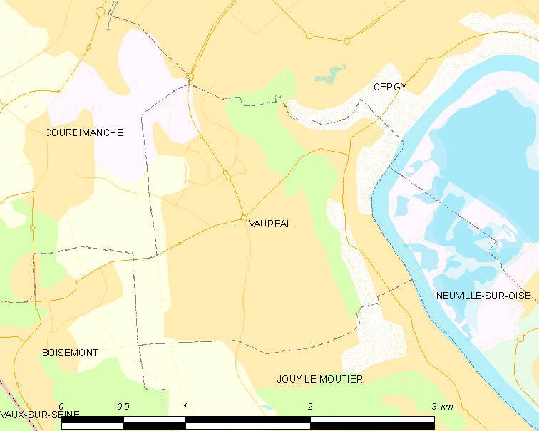 Map of French municipality Vauréal